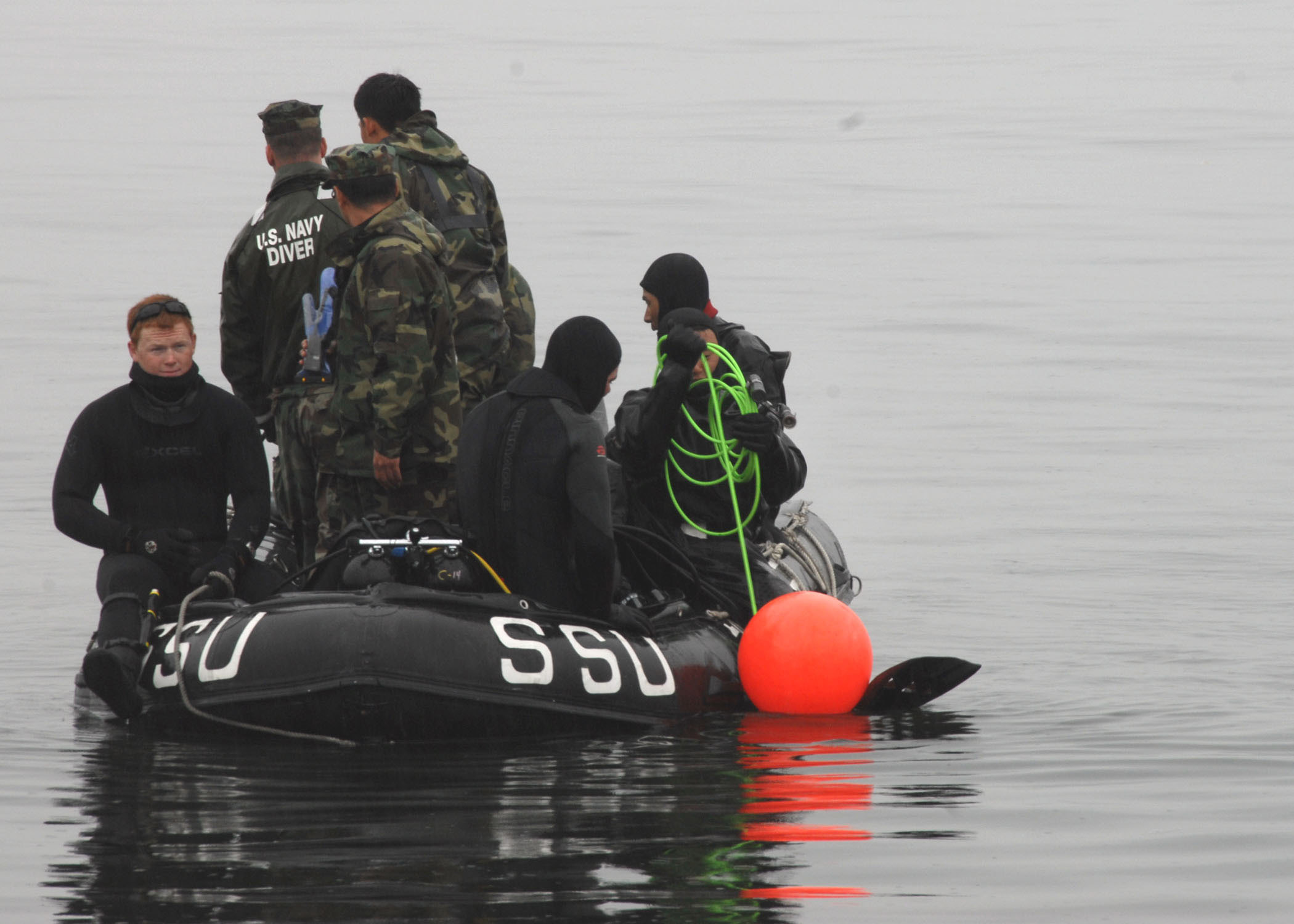 CHINHAE, Republic of Korea (Mar. 19, 2009) Seabees from Underwater Construction Team (UCT) 2 and Mobile Diving and Salvage Unit participate in an underwater welding exercise with the Republic of Korea Navy (ROKN). U.S. Armed Forces are working with Republic of Korea Armed Forces during Exercise Key Resolve/Foal Eagle 2009, which is an annual joint exercise involving forces from both the United States and the Republic of Korea. U.S. Navy photo by Mass Communication Specialist 1st Class Bobbie G. Attaway.